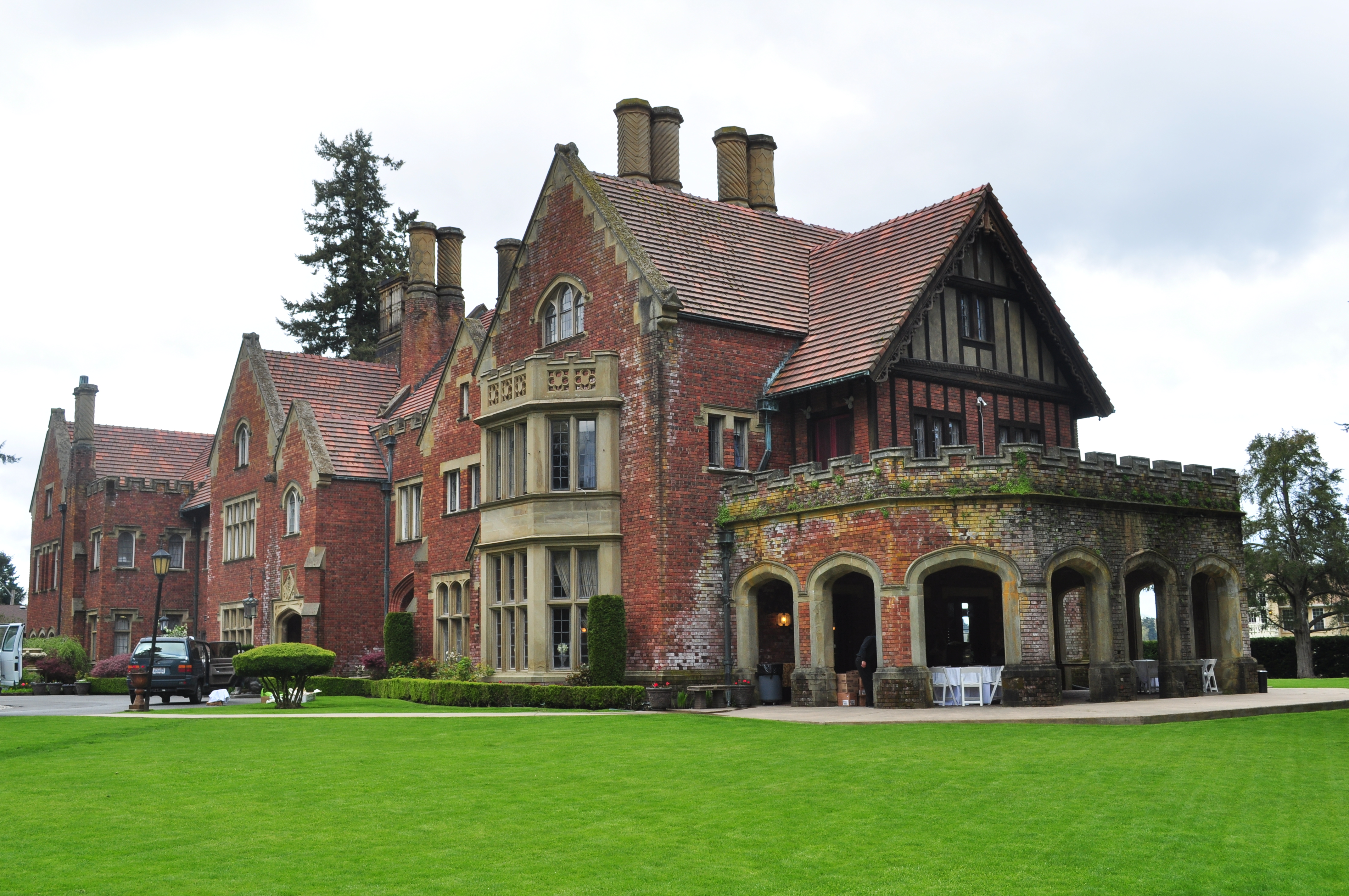 Thornewood Castle and estate, Lakewood, Washington, U.S.